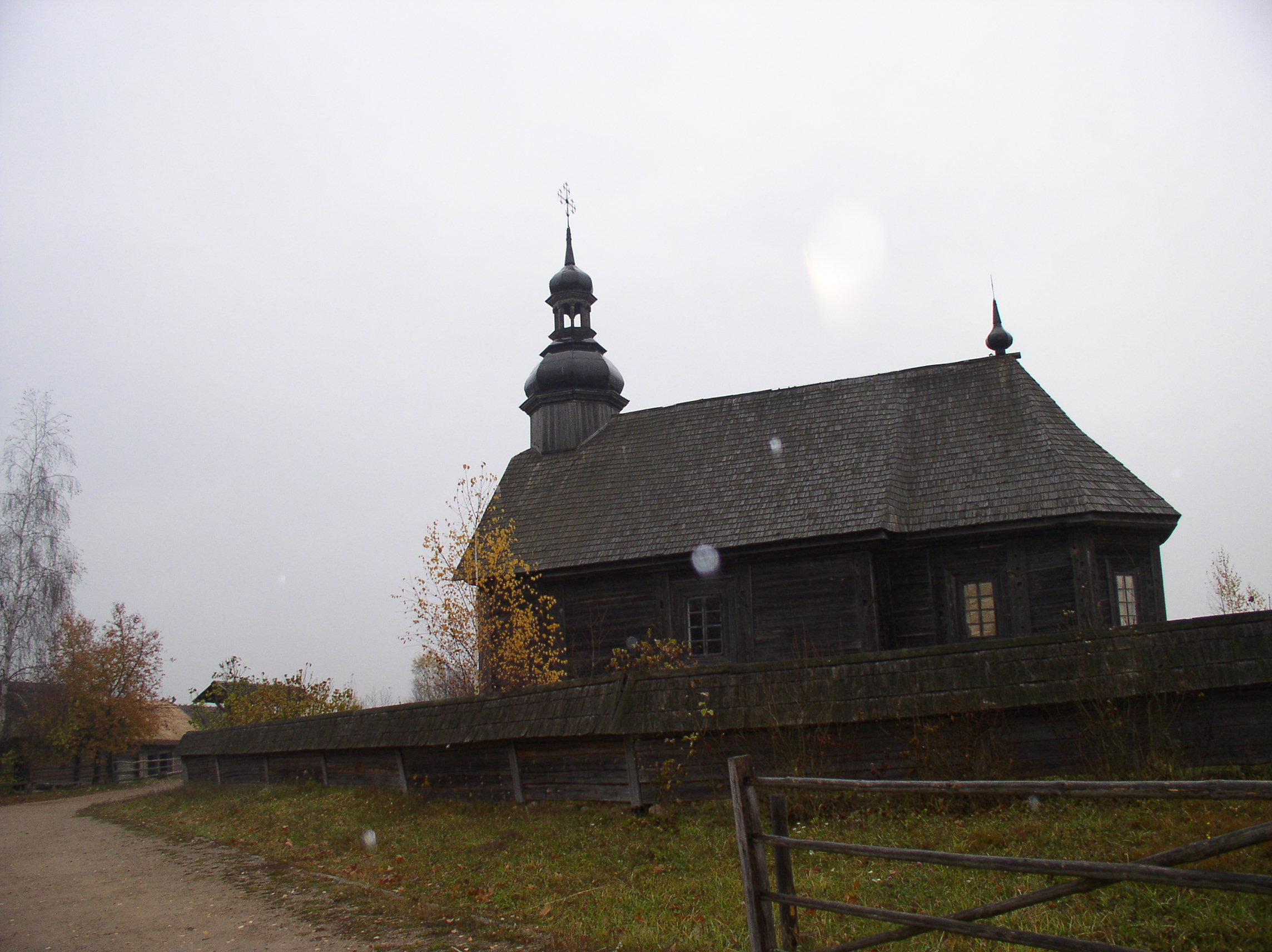 Church of Protection of the Holy Virgin from Lohnavichy, Kletsk district. State museum of folk architecture and life, Belarus.